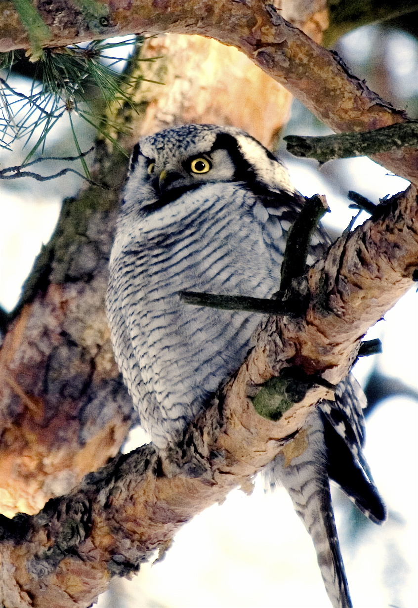 Surnia ulula (Northern Hawk Owl) in Lauttasaari, Finland.